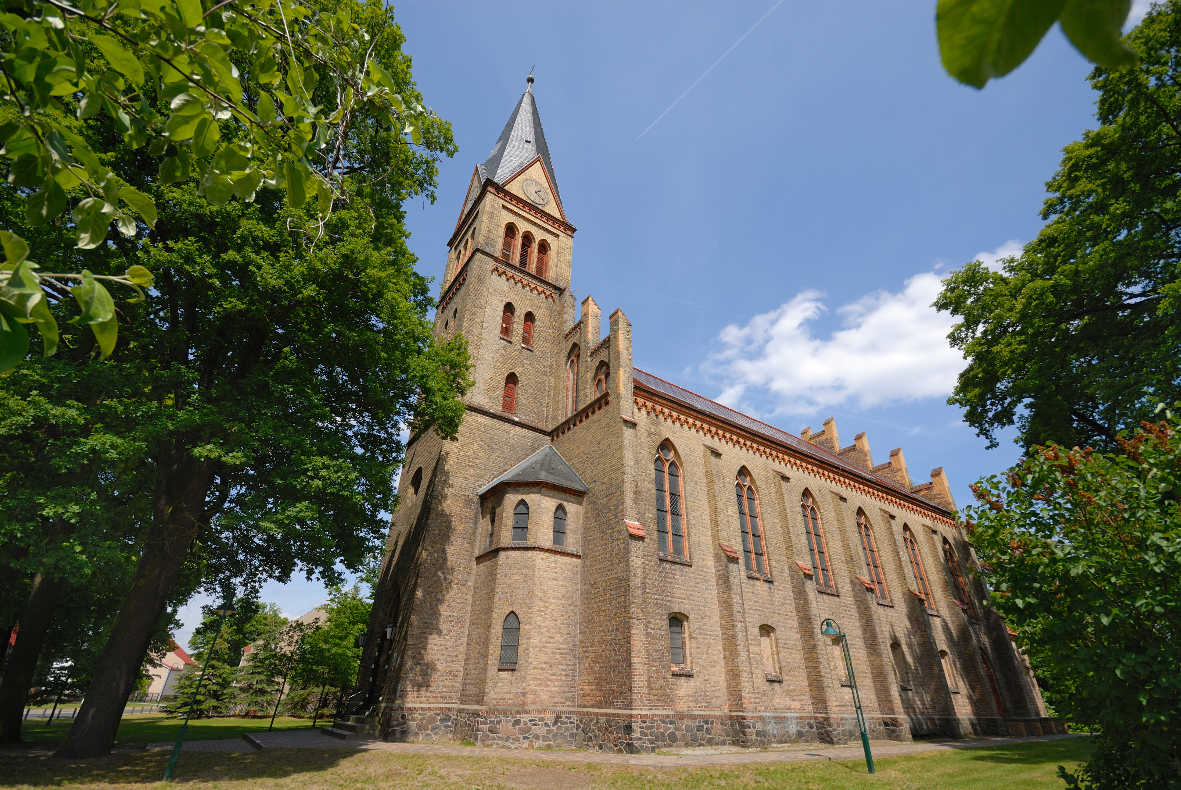 Protestant church in Heidesee-Friedersdorf, Brandenburg.